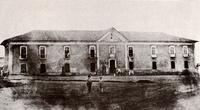 Early photograph by Militão de Azevedo representing São Paulo's jail, town hall, and city council.